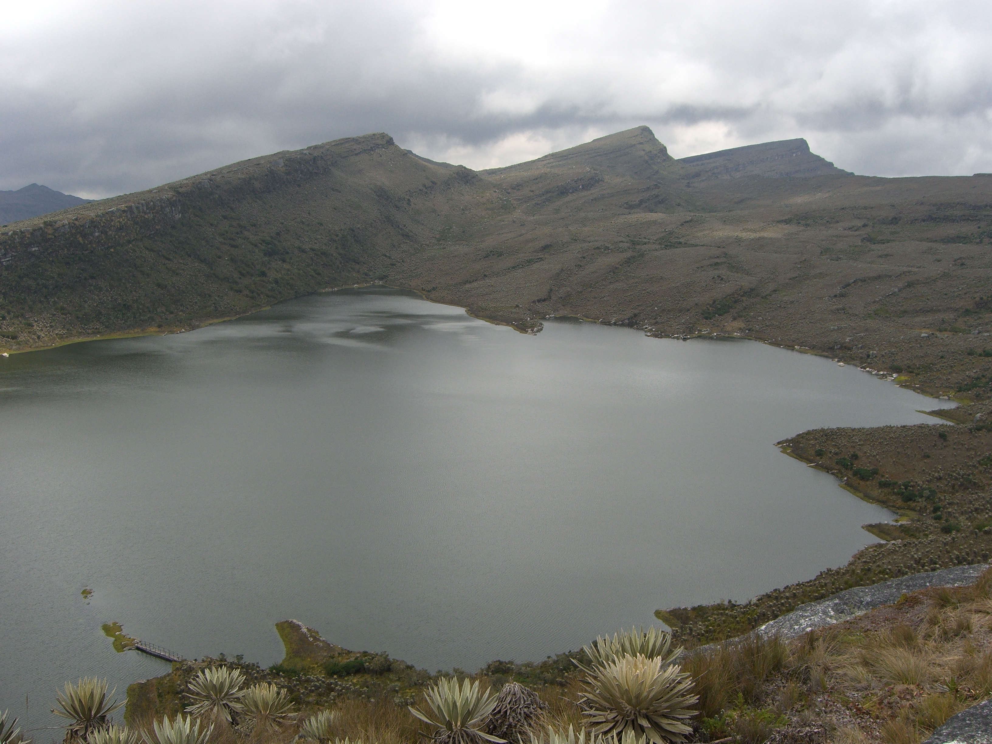 Laguna Chisacá in the Parque Nacional Natural Sumapaz